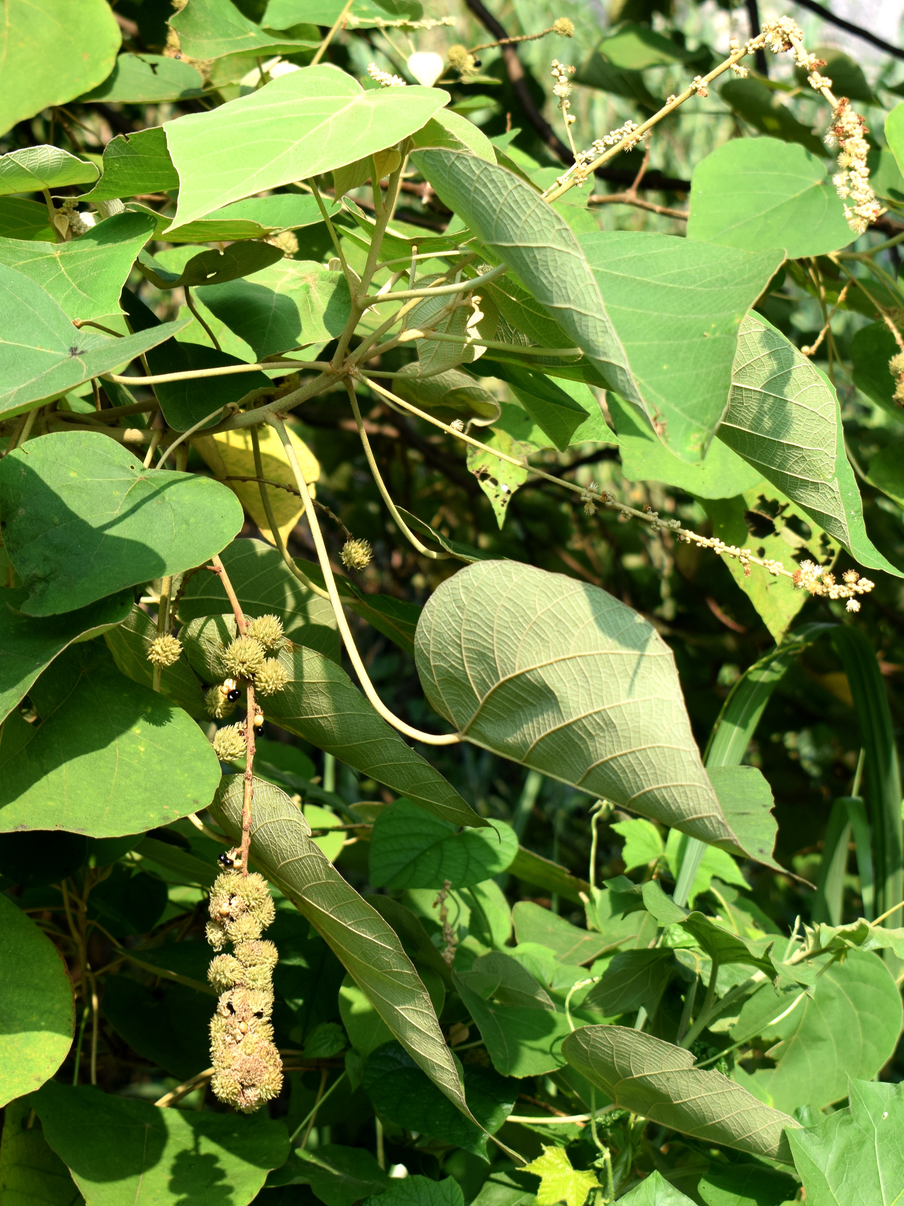 Mallotus molissimus; twigs with fruit and staminate panicles. From Bogor, West Java, Indonesia.